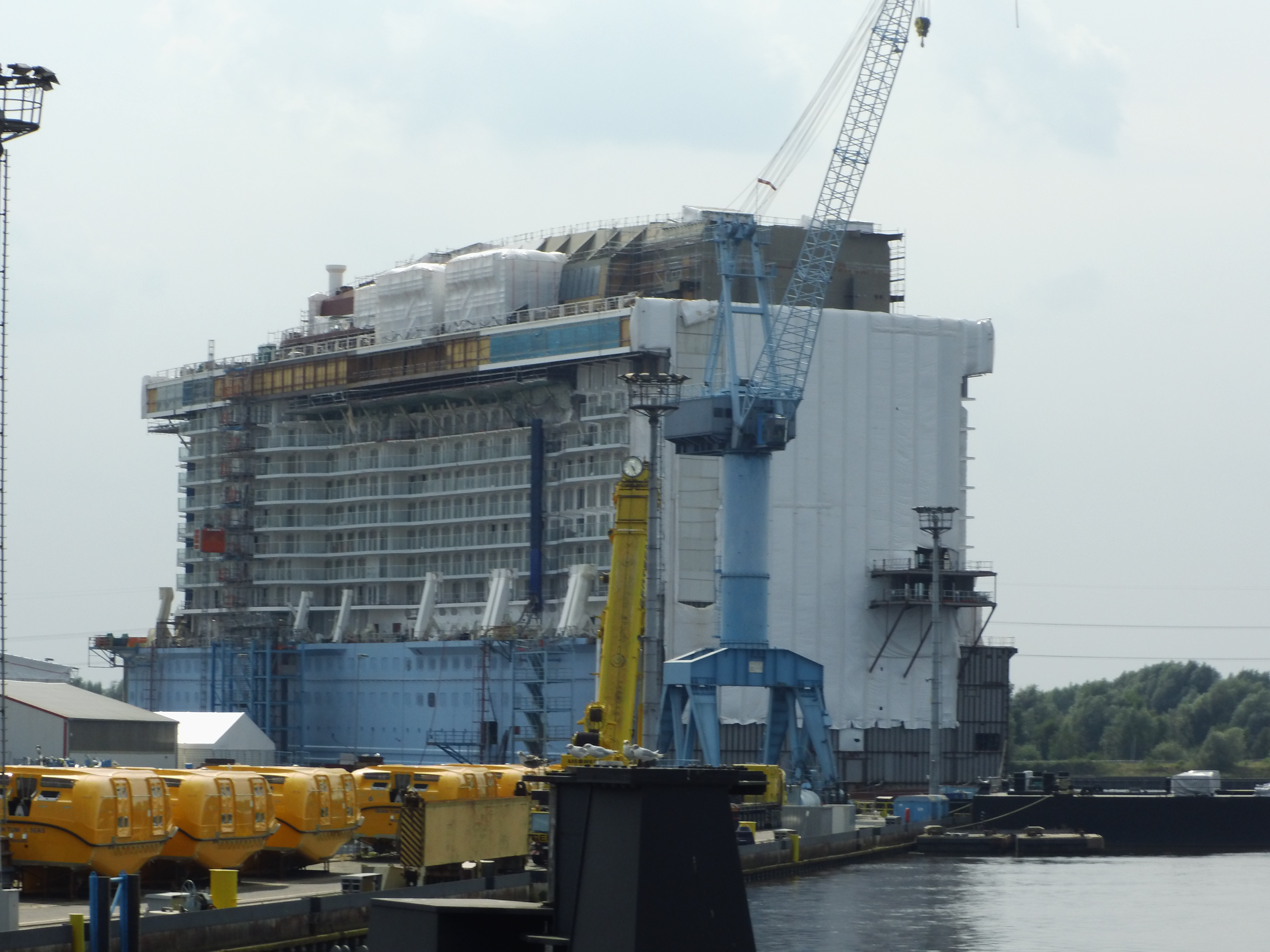 Anthem of the Seas under construction at Meyer shipyard, Germany